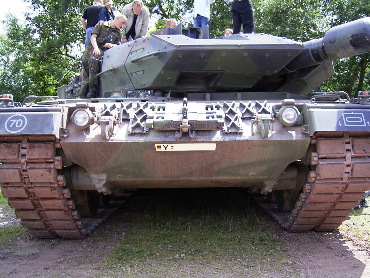 Front view Leopard 2A5 with arrow-shaped turret add-on armour.